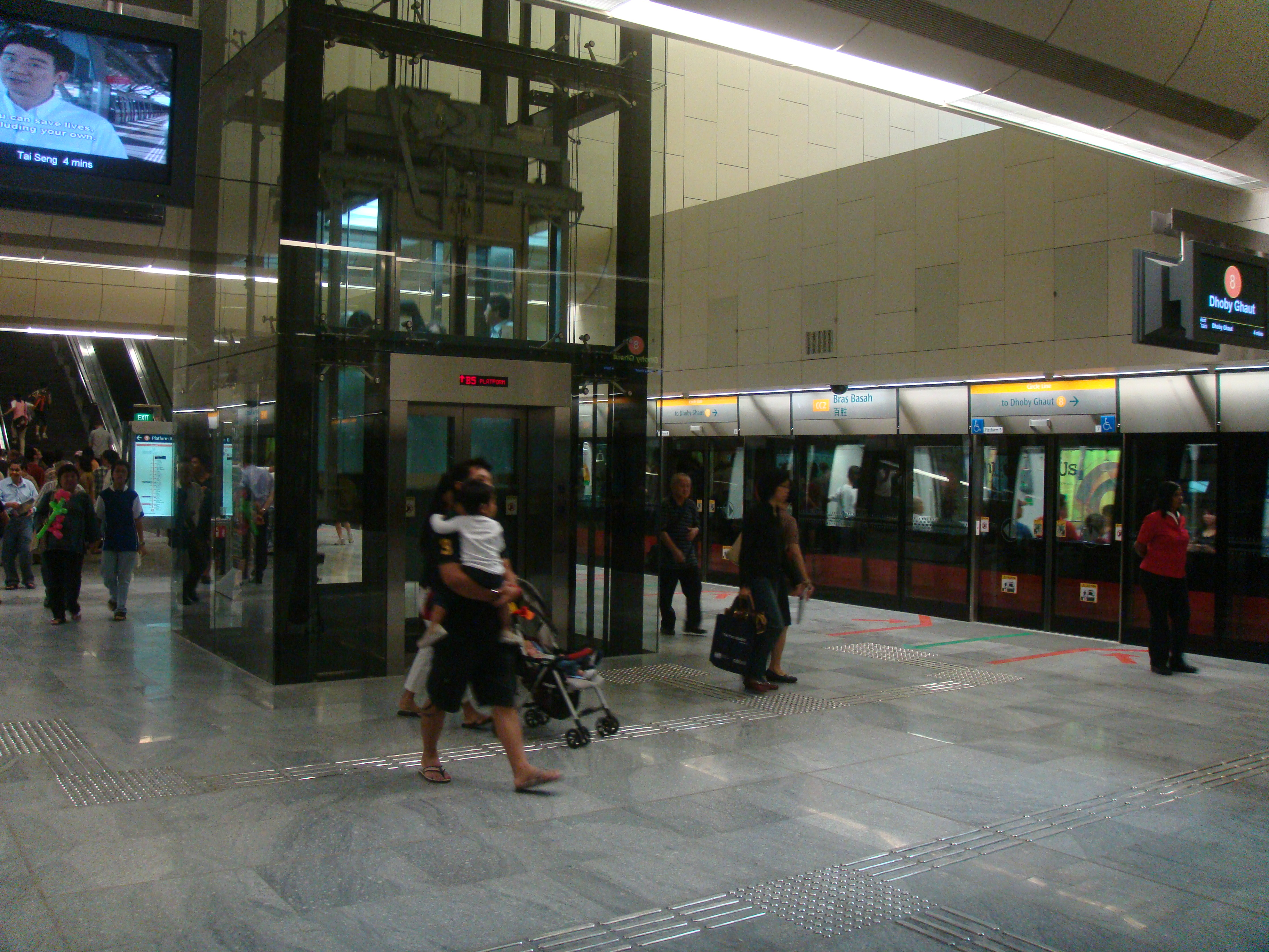 Circle Line platform of Bras Basah MRT Station, taken on the LTA Circle Line Discovery II Open House.